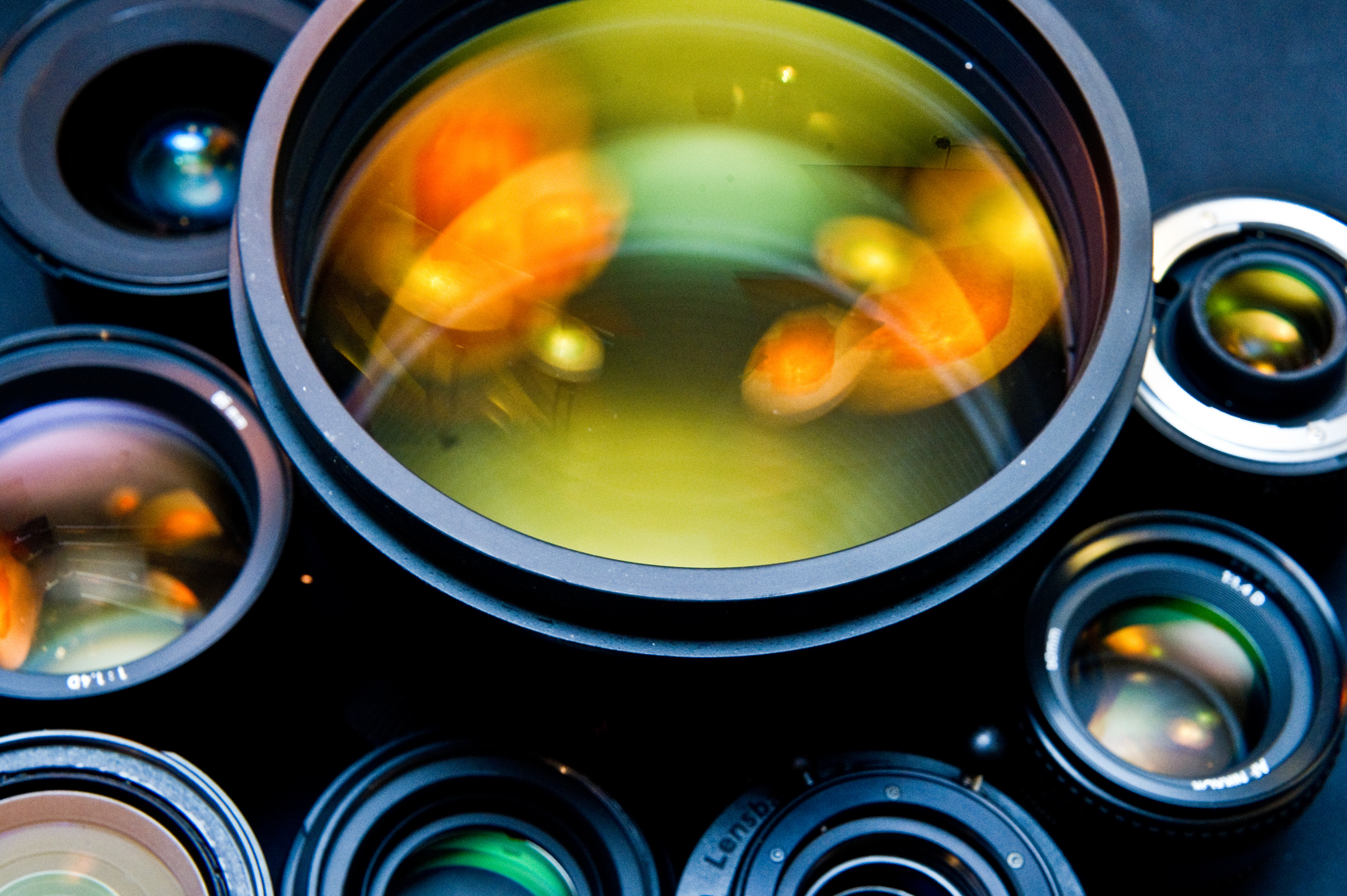 View of different photographic lenses, amongst them: 18-35mm F3.5-4.5; 24-70mm F2.8; 28-85mm F3.5-5.6; 35mm F1.4; 50mm F1.4; 85mm F1.4; 400mm F2.8; 1.4x Teleconverter; 1.7x Teleconverter; 2.0x Teleconverter; Lensbaby 3G